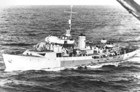 HMCS West York - Flower class corvette (Revised).